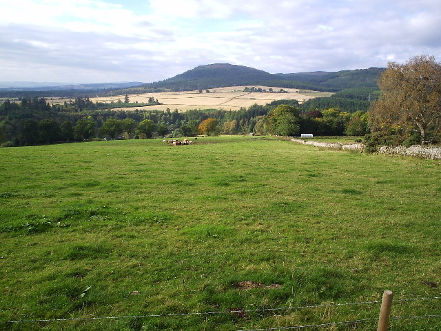 The Achandunie Road. This is one view from this road, Cnoch Fyrish in the distance.